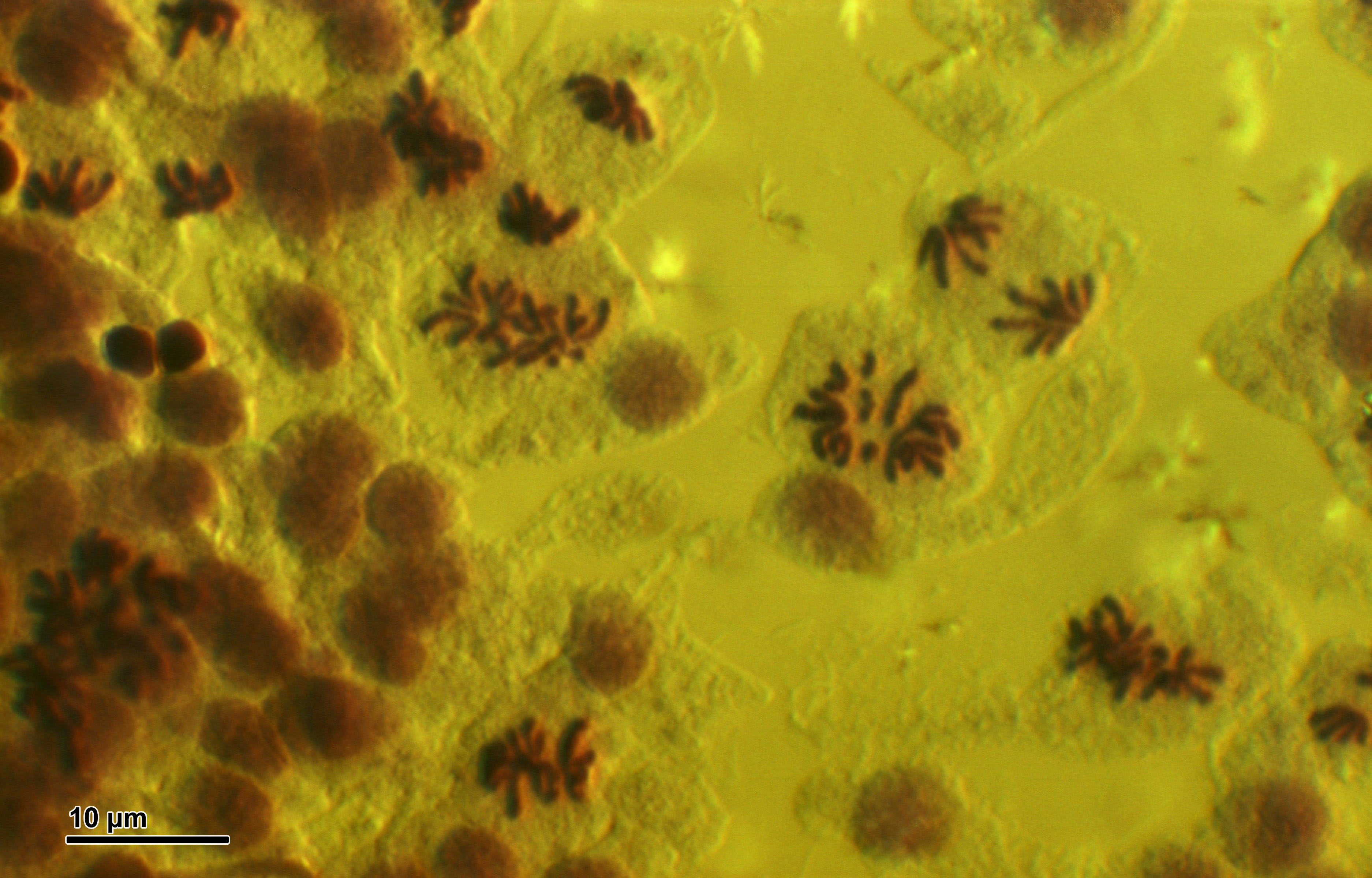 Mitosis: Grasshopper testes (Spermatogonia). Optical microscopy technique: Positive phase contrast. Magnification: 3000x (for picture width 26 cm ~ A4 format).